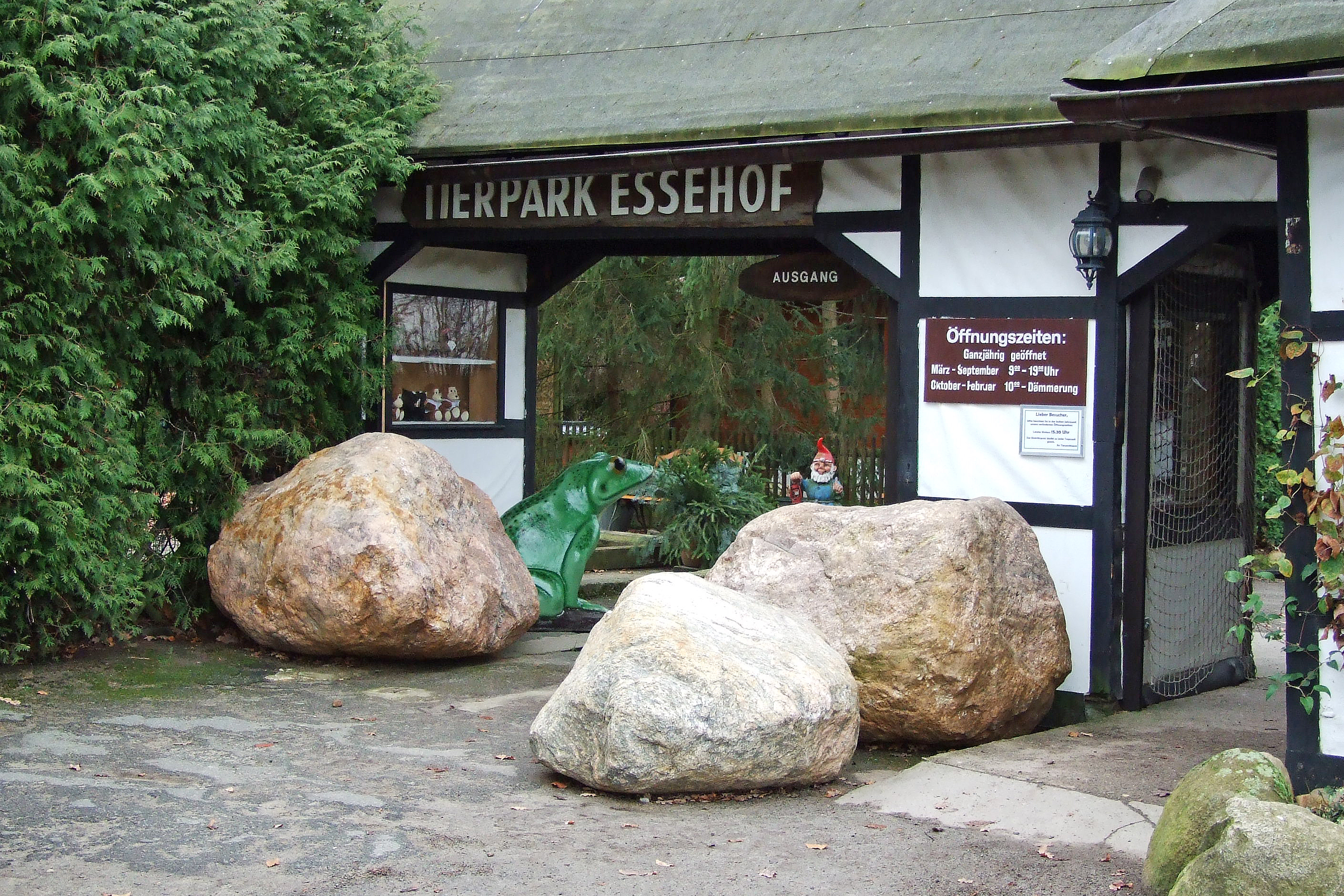 Entry of the zoo of Lehre-Essehof